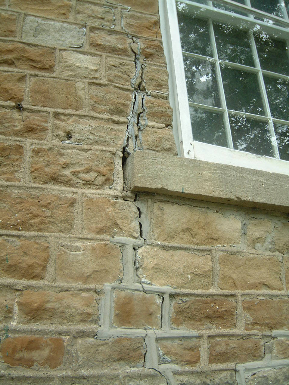 Crack in exterior wall, generic condition, at The School of Restauration Arts at Willowbank, Queenston, Ontario, Canada.